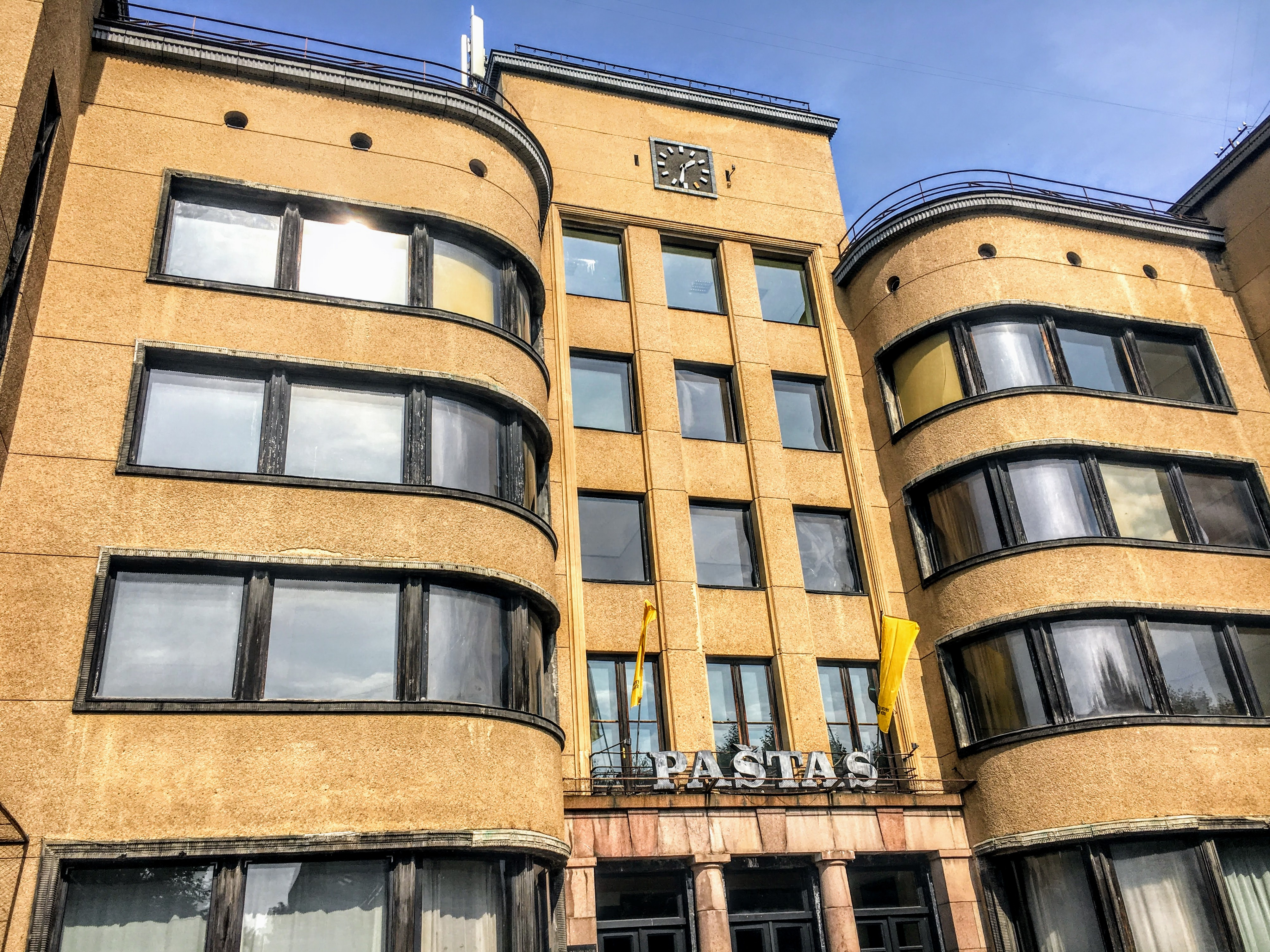 Central Post of Kaunas building exterior in Kaunas, Lithuania.